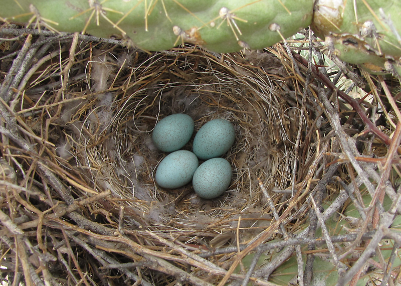 Four Curve-billed Thrasher eggs in a nest in Catalina Foothills, Tuscon, Arizona, USA.